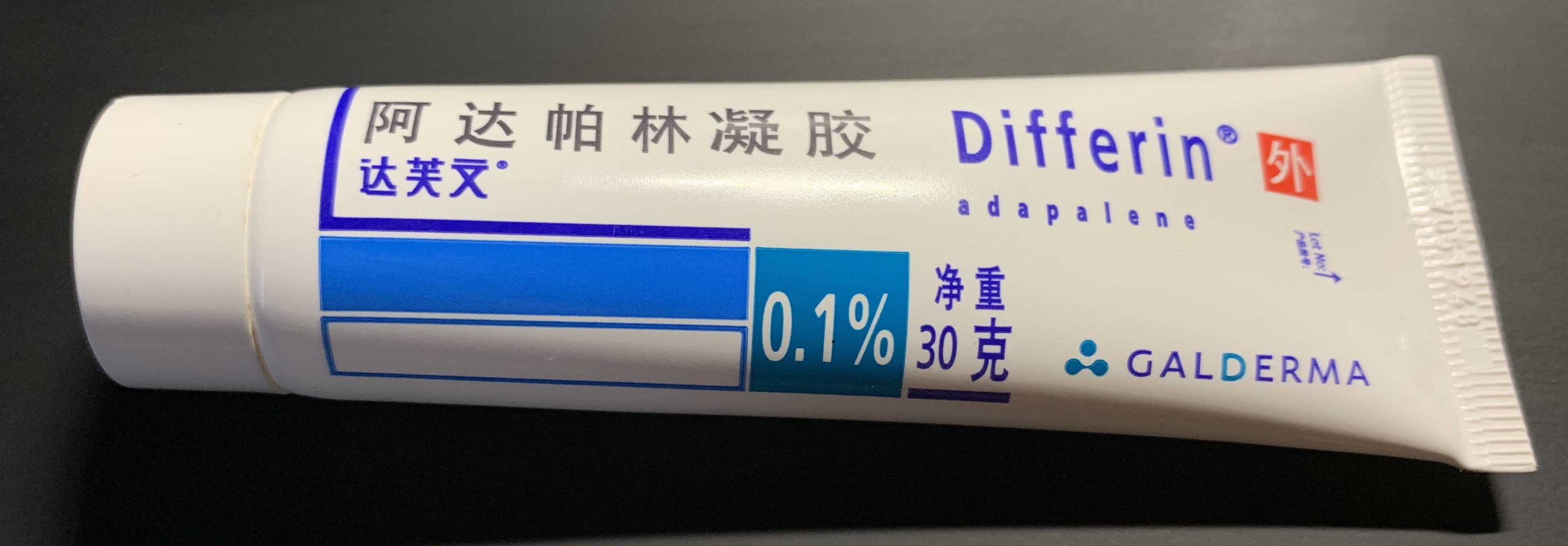 A tube of adapalene gel (trade name: Differin) sold in China. 中文（中国大陆）: 一管中国大陆销售的阿达帕林凝胶（商品名：达芙文）